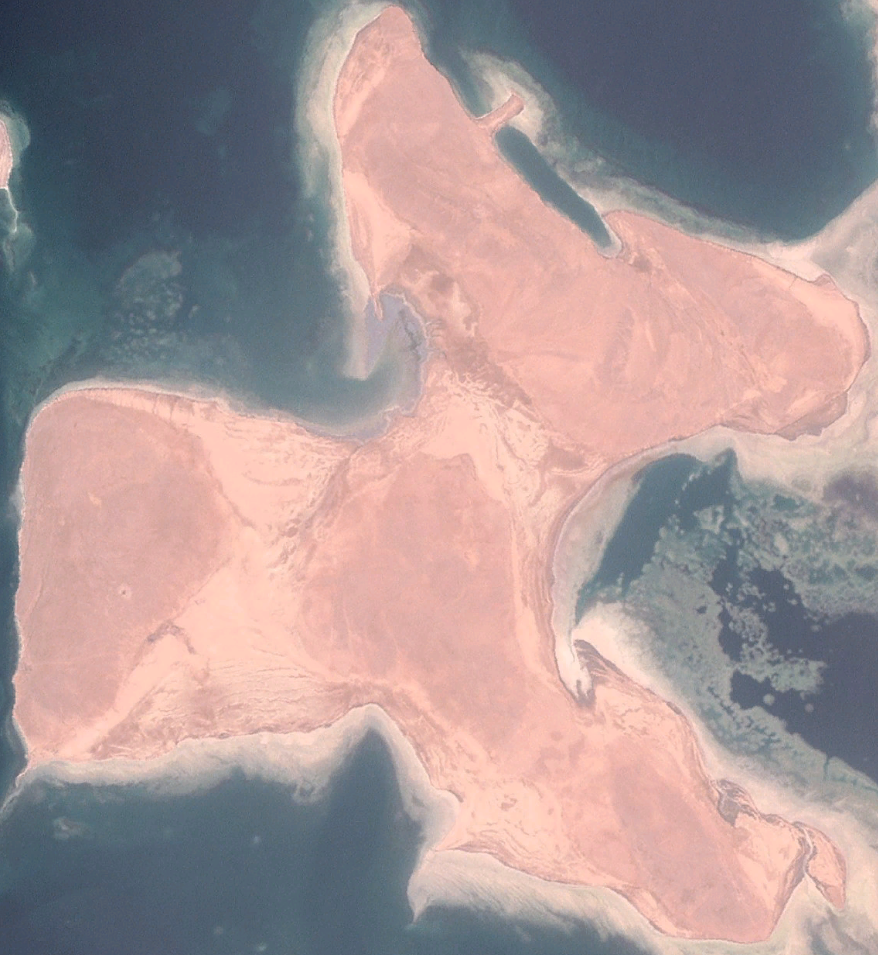 Satellite image of Nora (not Nahaleg!)